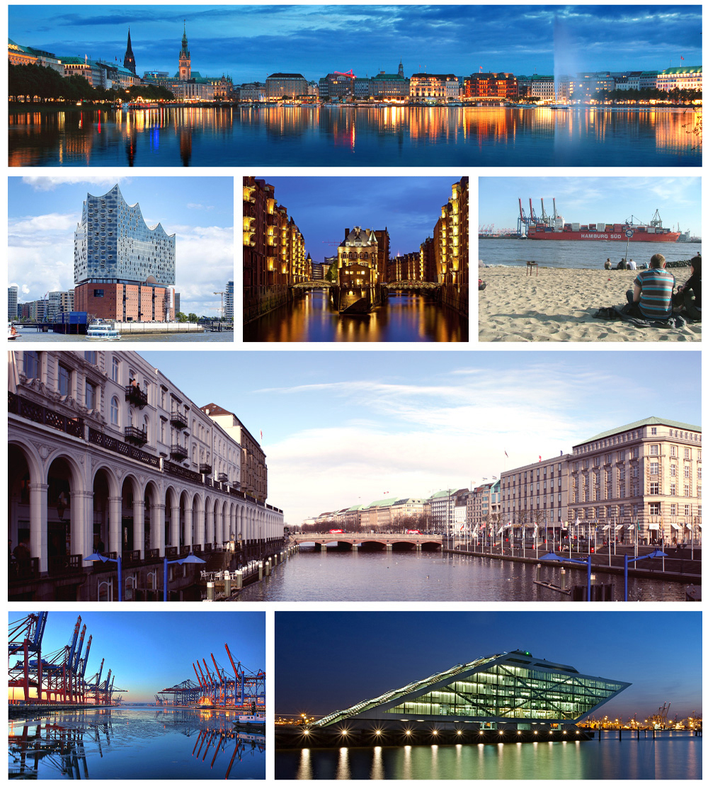 Montage of images from the city of Hamburg, Germany